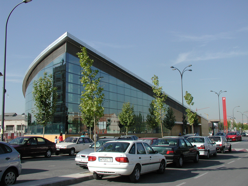 Central train station of Getafe (Madrid), Spain.